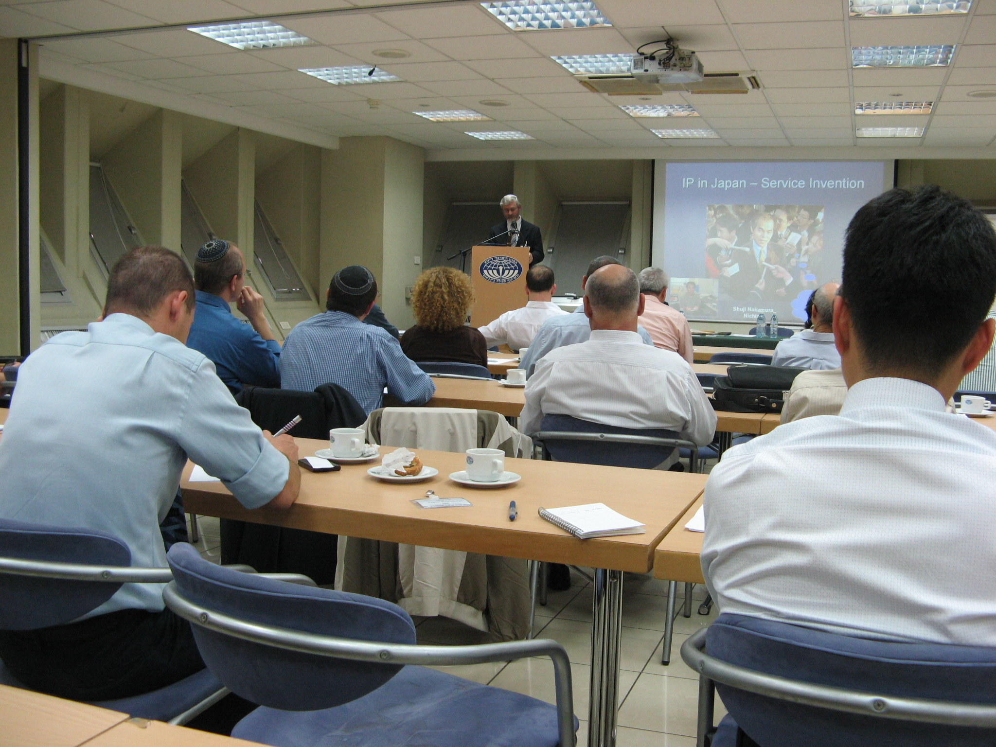 A workshop at the Israel Export Institute on intellectual property in Japan